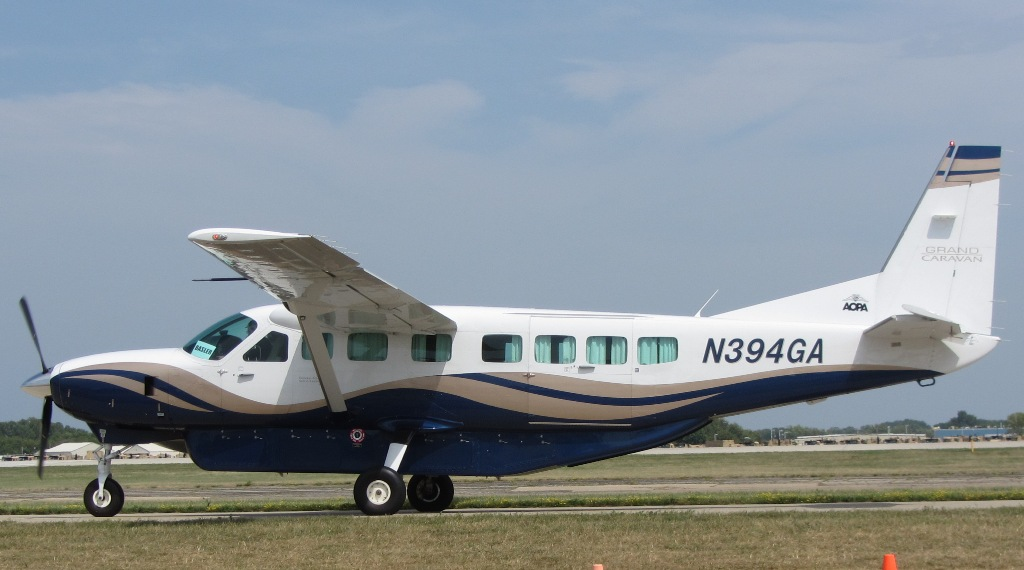 AOPA Cessna 208